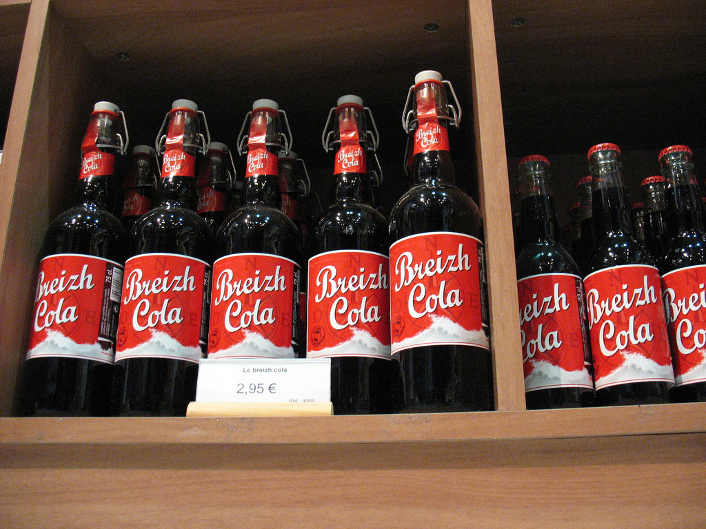 The Original Cola from Brittany !